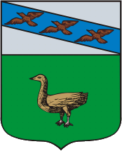 Lgov (Kursk oblast), coat of arms (1780)